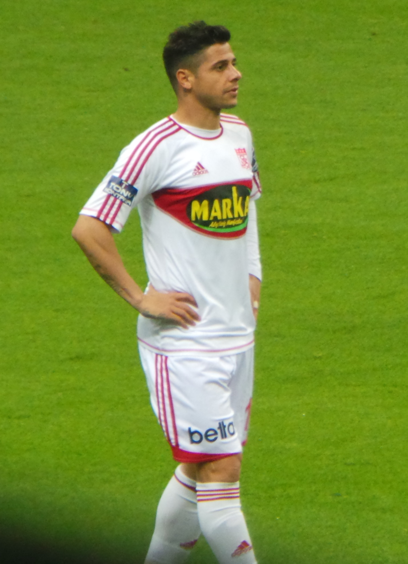 Cícero João de Cézare playing against Galatasaray.